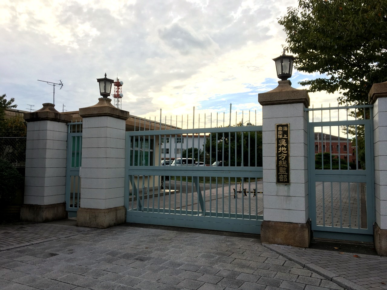 Japan Maritime Self-Defense Force Kure Naval Base